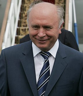 Nikolay Merkushkin, President of the Republic of Mordovia